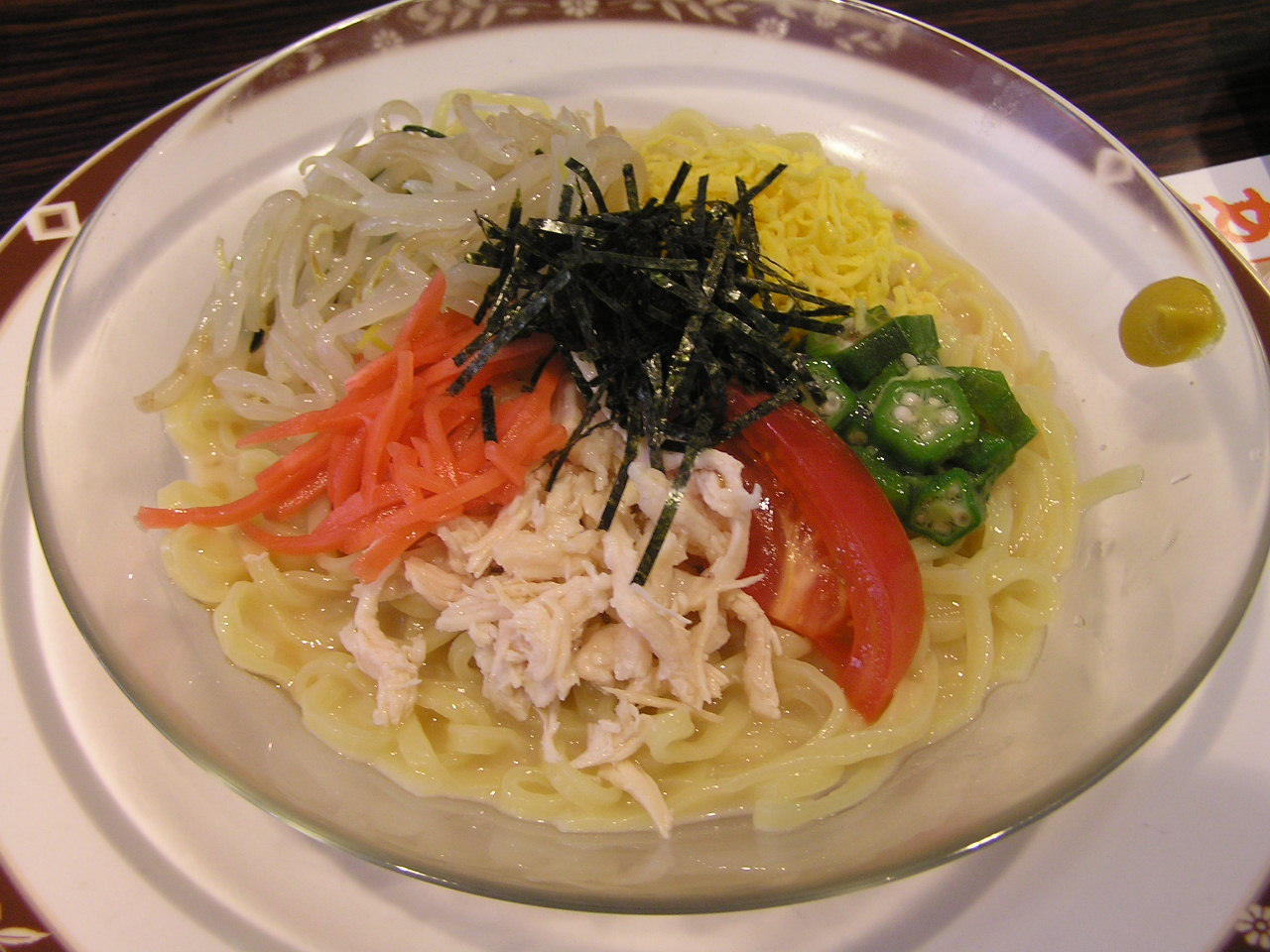 hiyashi-tyuka,Restaurant-GUSTO,冷やし中華